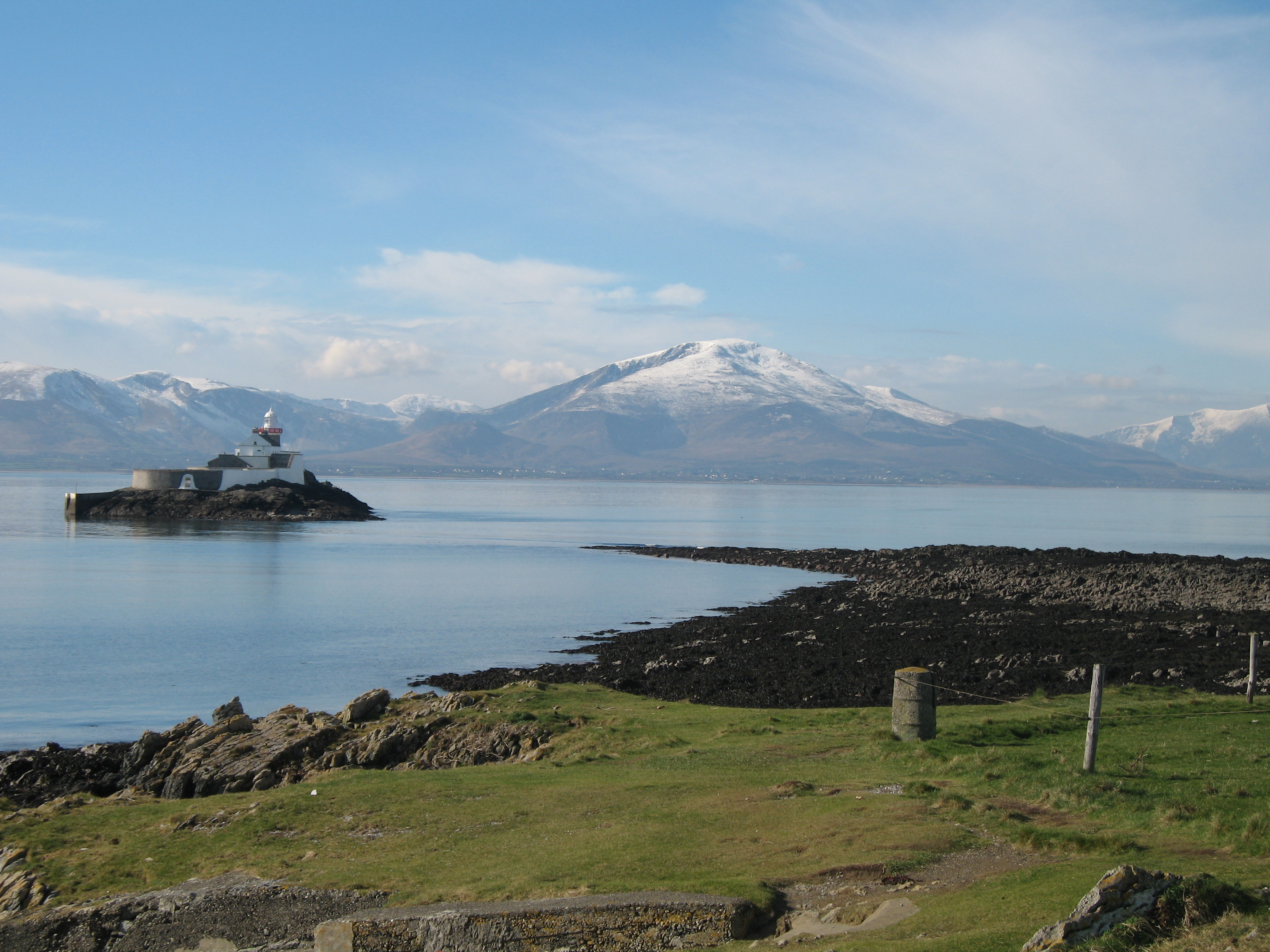 Little Samphire Island at Fenit, County Kerry with Little Samphire lighthouse